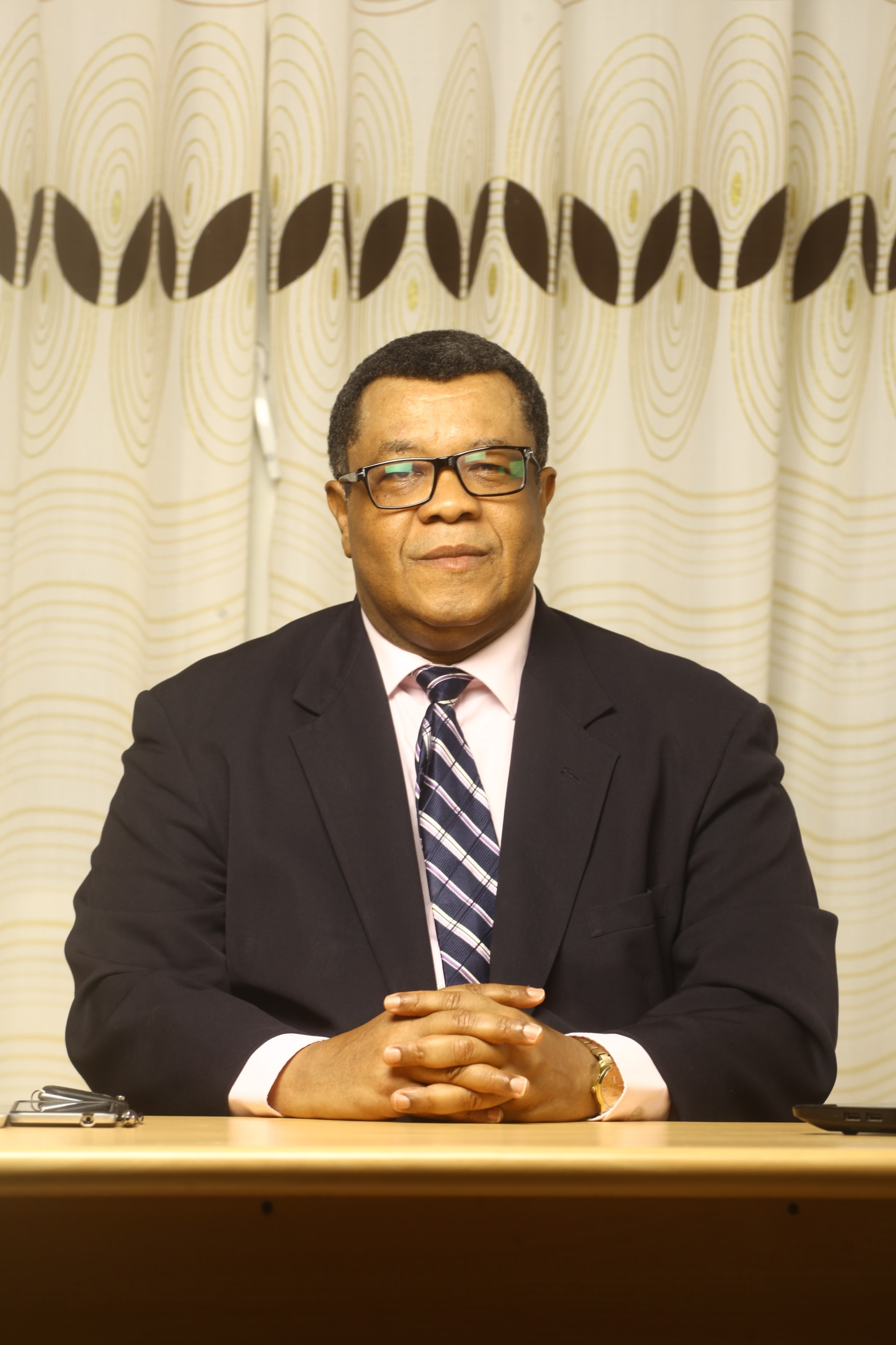 Portrait of Augustus Obuadum Tanoh at his desk taken on November 4 2017